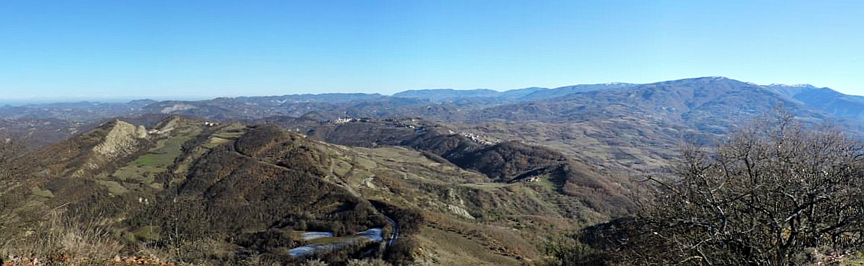 Panorama from monte Barilaro (Ligurian Apennine)